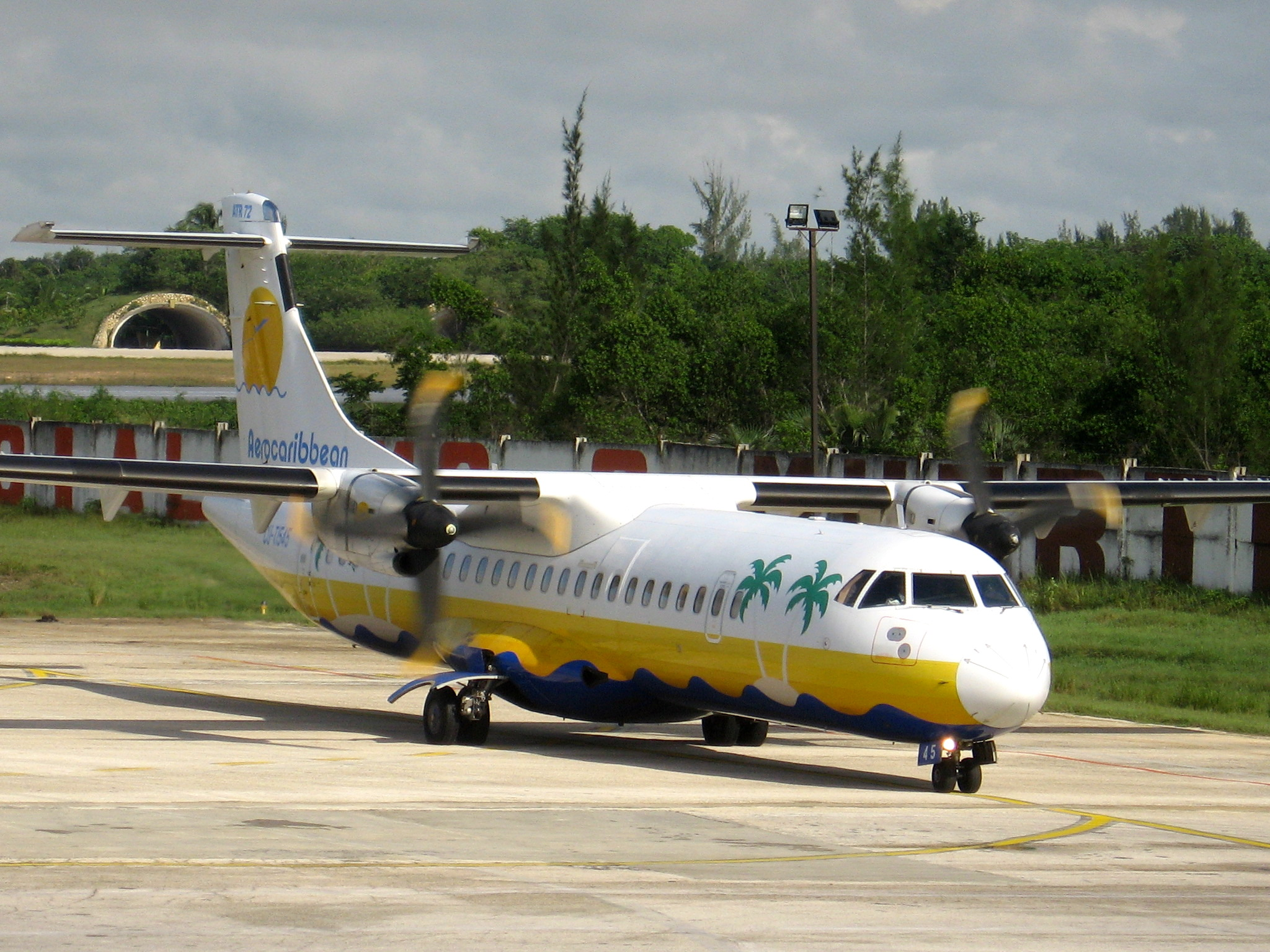 Aerocaribbean ATR 72 (CU-T1545) at Holguin airport, Cuba